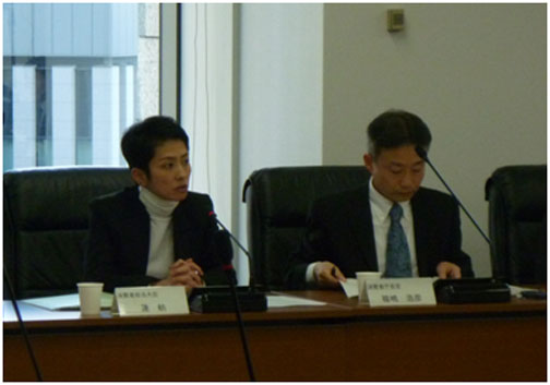 Renhō Murata, Minister of State for Consumer Affairs and Food Safety, and Hirohiko Fukushima, Commissioner of the Consumer Affairs Agency, attended a meeting about the price on April 4, 2011.(For terms of use, see 利用規約｜消費者庁.)